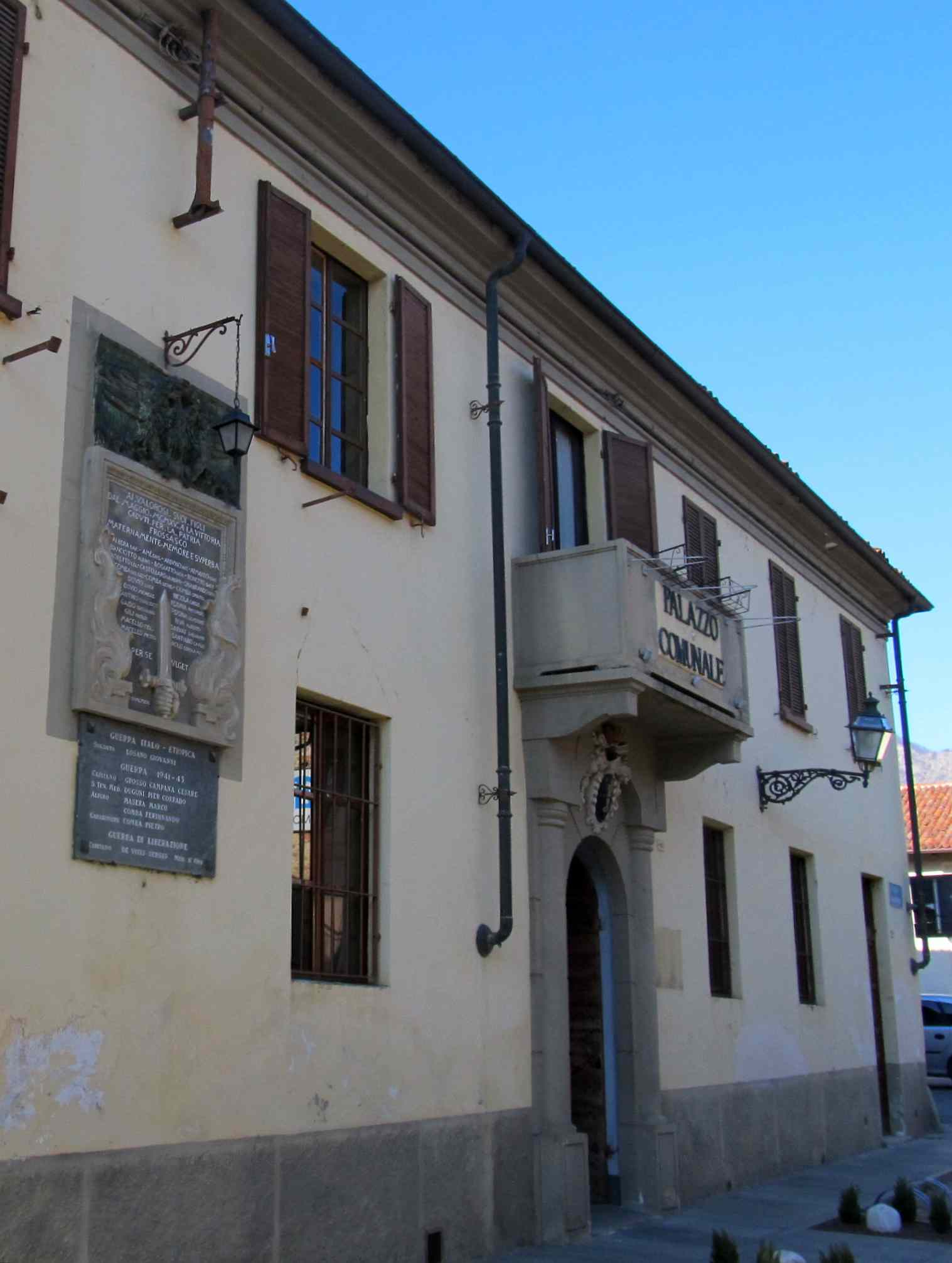 Frossasco (TO, Italy): town hall